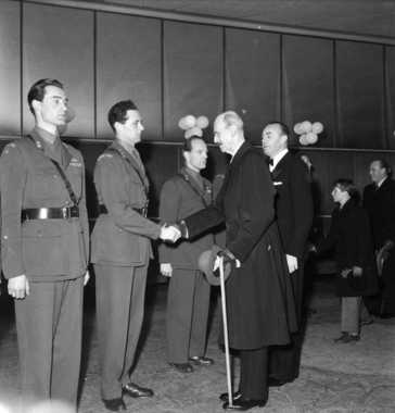 HM King Haakon VII of Norway at the premiere of the film Kampen om tungtvannet (Operation Swallow: The Battle for Heavy Water) at Klingenberg kino in Oslo. Soldiers in uniform, from the left: Joachim Rønneberg, Jens Anton Poulsson shaking hands with the king, Kasper Idland. Photo by Leif Ørnelund in the collection of Oslo Museum via DigitaltMuseum.